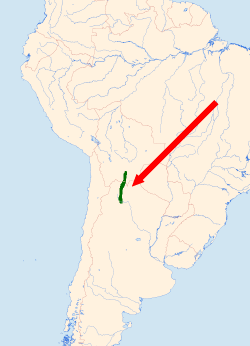 Cinclus schulzi - Range Map